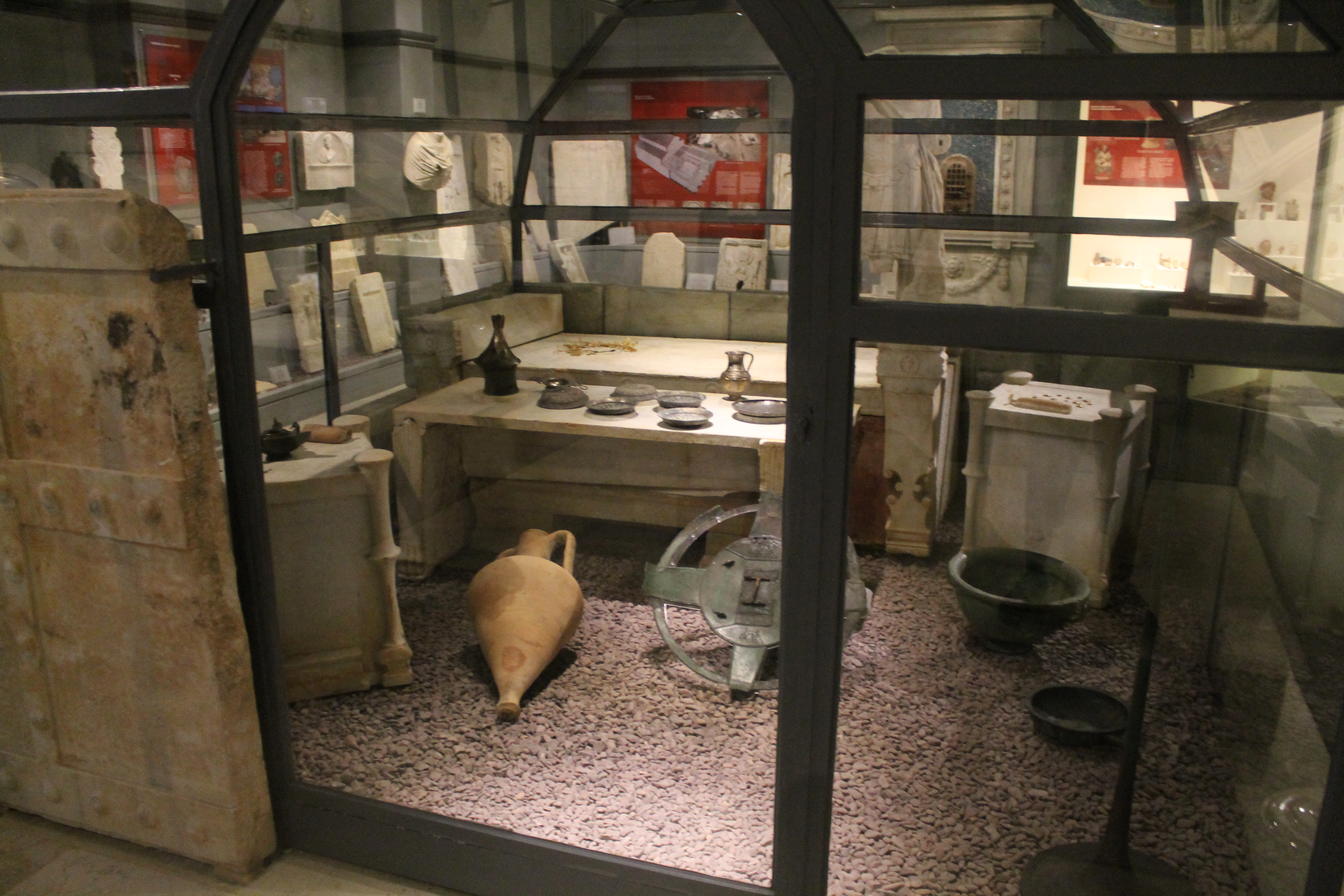 Tumulus Naip, probably this tumulus was for Teres who was son of King Kersepleptes